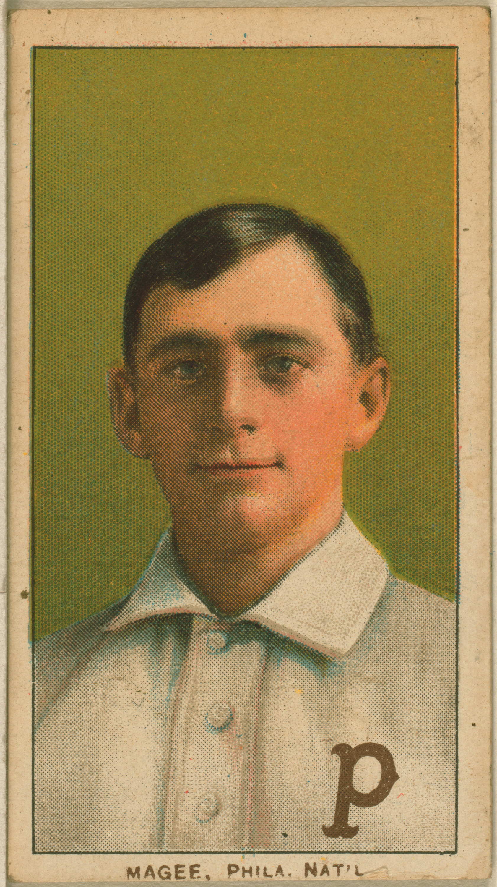 T206 White Borders, 1909-11 From the Baseball Cards Collection at the Library of Congress More 206 White Borders | More vintage baseball cards [PD] This picture is in the public domain